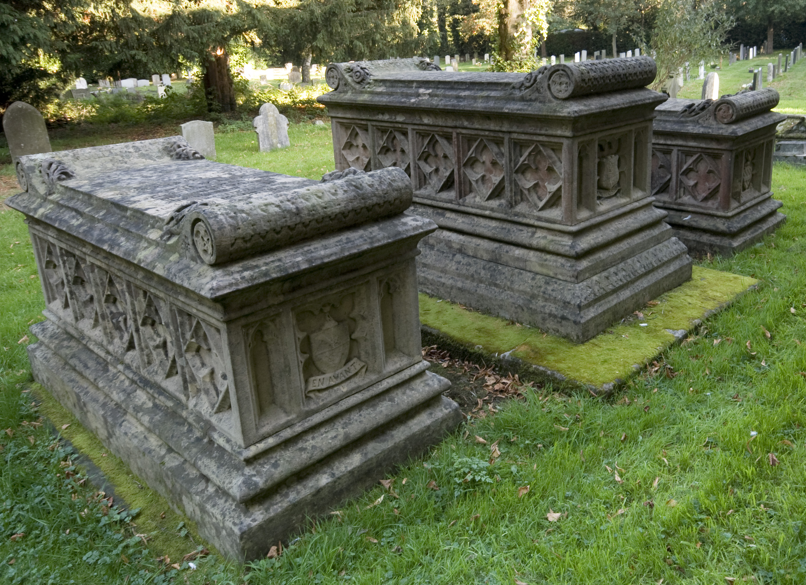 Hinckley Tombs, Christ Church, Lichfield